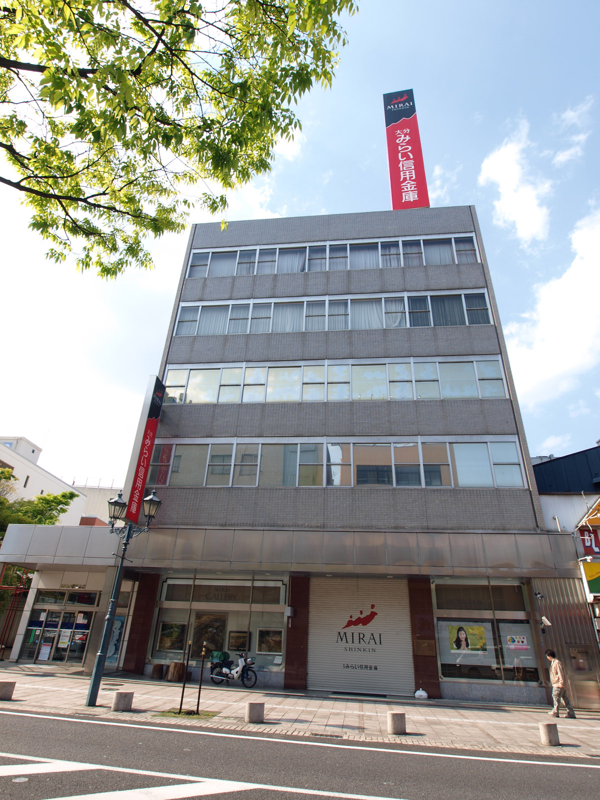 Oita Mirai Shinkin Bank Headquater Building, Beppu City, Oita Prefecture